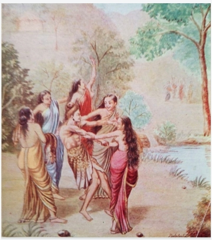 Rishyashringa, son of Vibhandaka sage was brought up in wilderness and knew no human beings except his father. The childless king Dasharatha was advised by sage Vasishtha to invite Rishyashringa, known for his spiritual powers to the city of Ayodhya, to perform a special sacrifice for obtaining sons under his supervision. Accordingly teams of dancing girls were sent to the hermitage who tactfully brought the innocent youth to Ayodhya. He helped the king to conduct the much-needed sacrifice. Potpourri